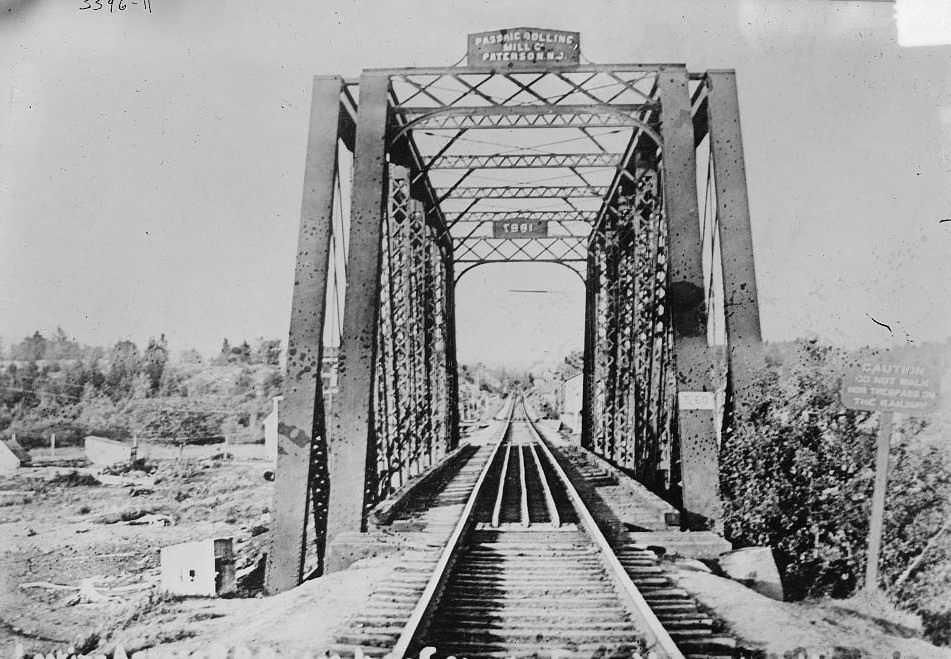 Title: Looking across R.R. bridge into Canada from Vanceboro, Me. Creator(s): Bain News Service, publisher Date Created/Published: [between ca. 1910 and ca. 1915] Medium: 1 negative : glass ; 5 x 7 in. or smaller. Reproduction Number: LC-DIG-ggbain-18553 (digital file from original negative) Rights Advisory: No known restrictions on publication. Call Number: LC-B2- 3396-11 [P&P] Repository: Library of Congress Prints and Photographs Division Washington, D.C. 20540 USA Notes: Title from data provided by the Bain News Service on the negative. Forms part of: George Grantham Bain Collection (Library of Congress). General information about the Bain Collection is available at Format: Glass negatives. Collections: Bain Collection Bookmark This Record: View the MARC Record for this item.